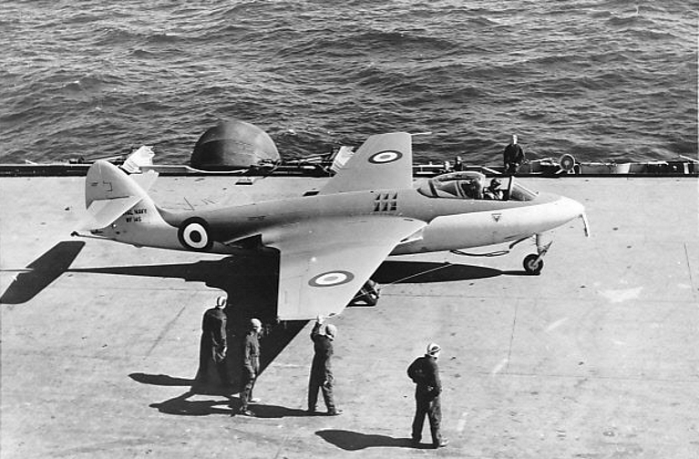 A Royal Navy Hawker Sea Hawk F1 (s/n WF145) aboard the aircraft carrier HMS Eagle (R05).